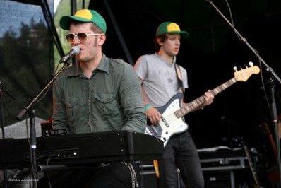 Picture og Alexsandria quartet